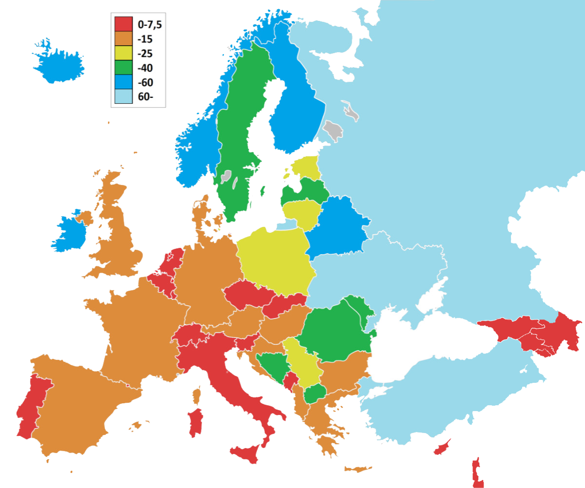 This map shows the density of UNESCO sites in European countries. Red: 1 site per 0-7,5 thousands km2 Orange: 1 site per 7,5-15 thousands km2 Yellow: 1 site per 15-25 thousands km2 Green: 1 site per 25-40 thousands km2 Dark blue: 1 site per 40-60 thousands km2 Light blue: 1 site per more than 60 thousands km2